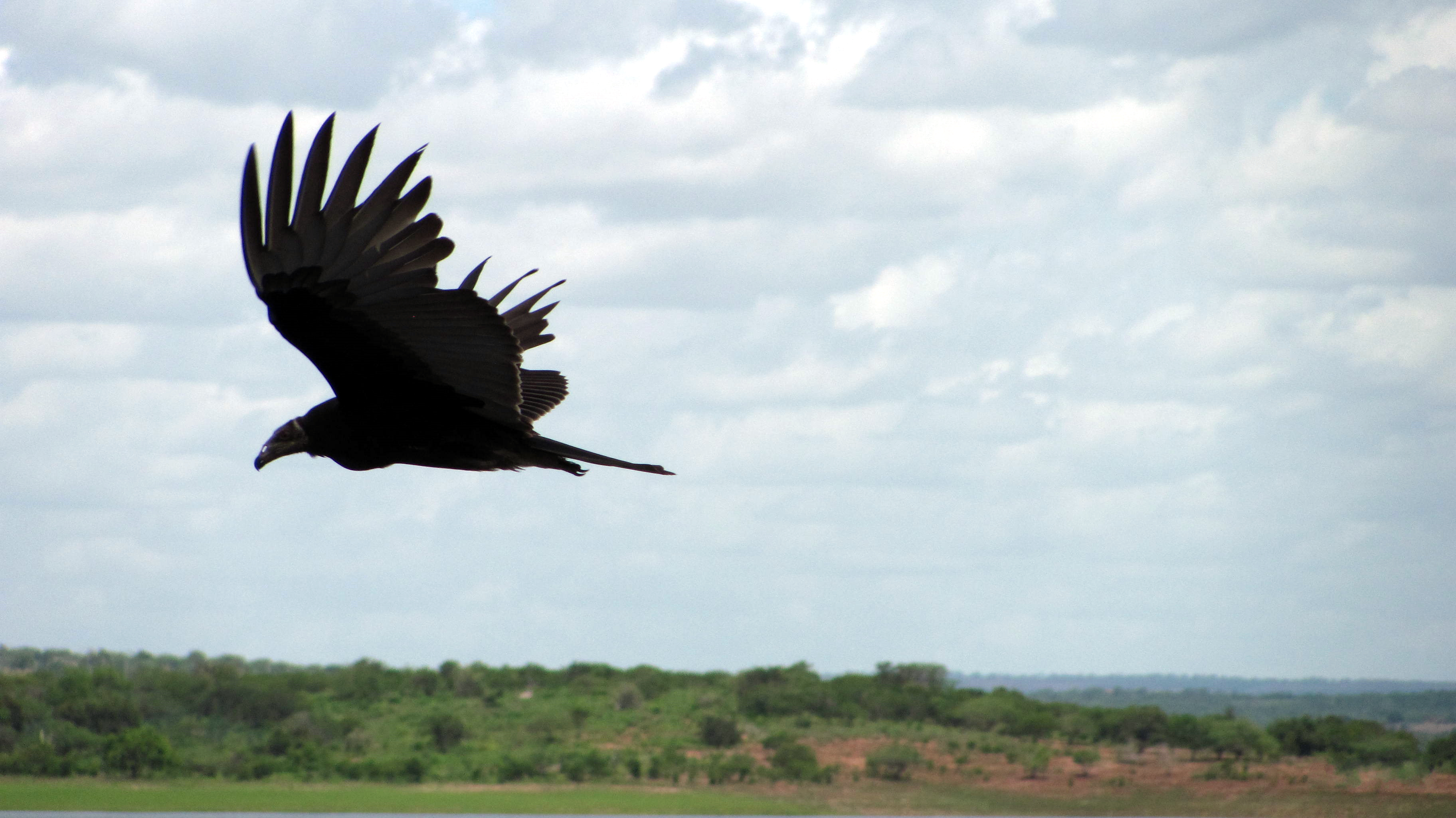 = Cathartes aura in Poço Grande, Brazil